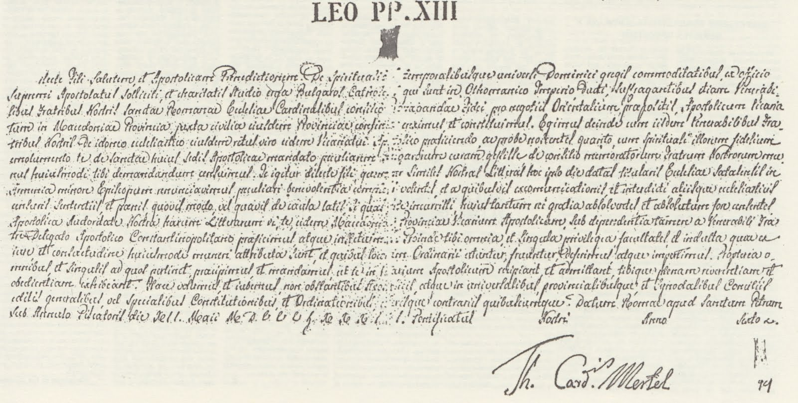 Papal Document for Building a Bulgarian Uniat Church in Kukush 1880